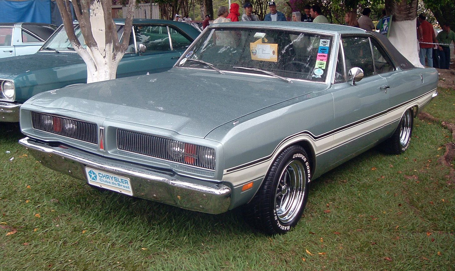 1978 Dodge Charger R/T (no scoops on the bonnet)